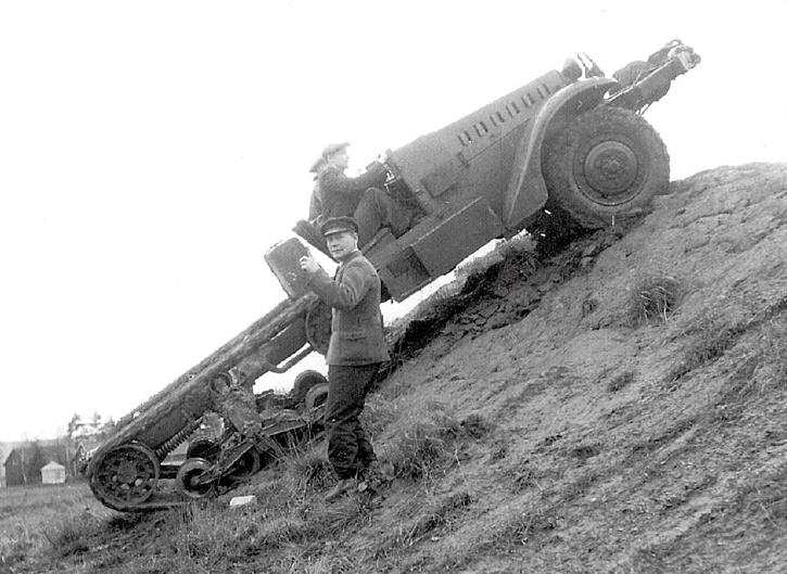 White M2 Half Track vehicle under testing in Yhteissisu factory (later VAT) in Hämeenlinna/Vanaja in autumn 1947